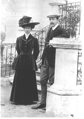 Count and Countess László Széchenyi of Hungary. Photo by Mór Erdélyi